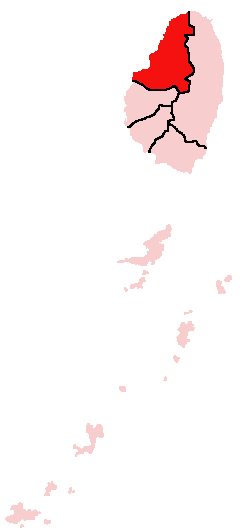 Map of Saint Vincent and the Grenadines showing Parishes; created with the GIMP. Made by User:Acntx.